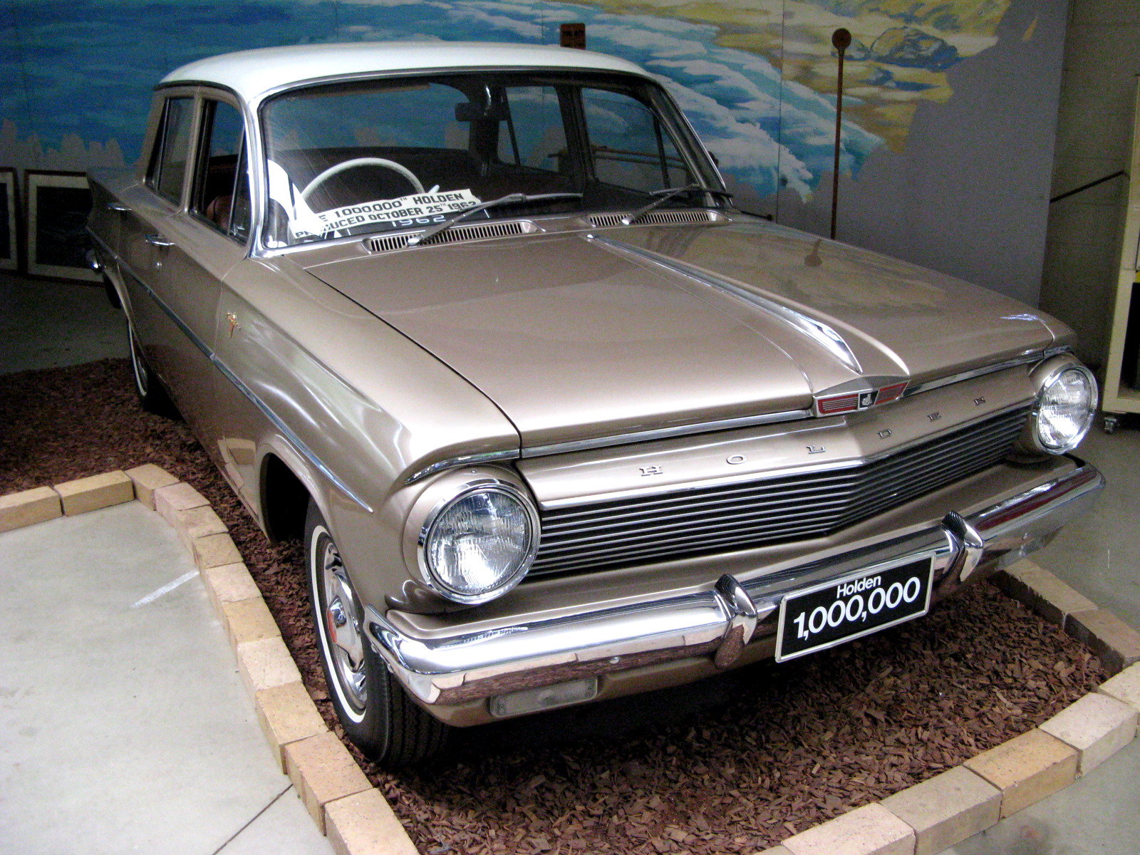 1962 Holden EJ Premier sedan, photographed at the National Holden Motor Museum, Echuca, Victoria, Australia.